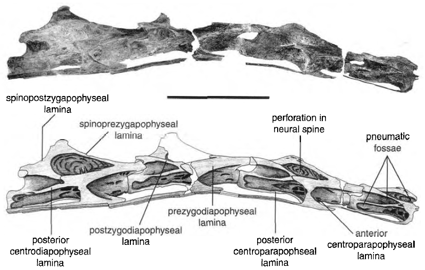 Sauroposeidon proteles (OMNH 53062), articulated cervicals 5-8 in right lateral view.